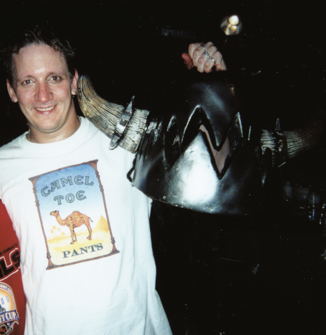 Michael Derks, guitarist of GWAR, out of costume, holding his "Balzac" head.